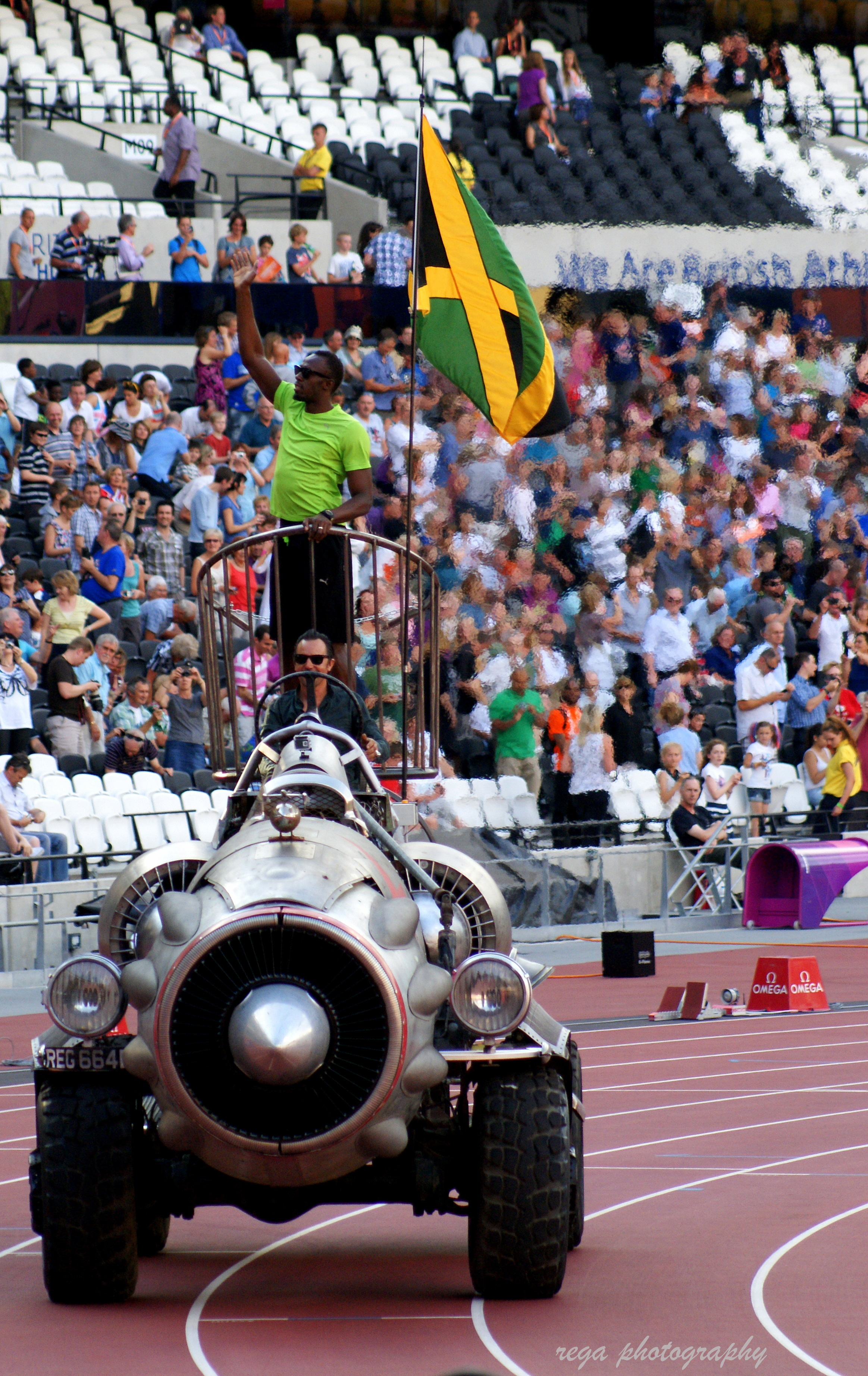 Usain Bolt - entrance into the stadium